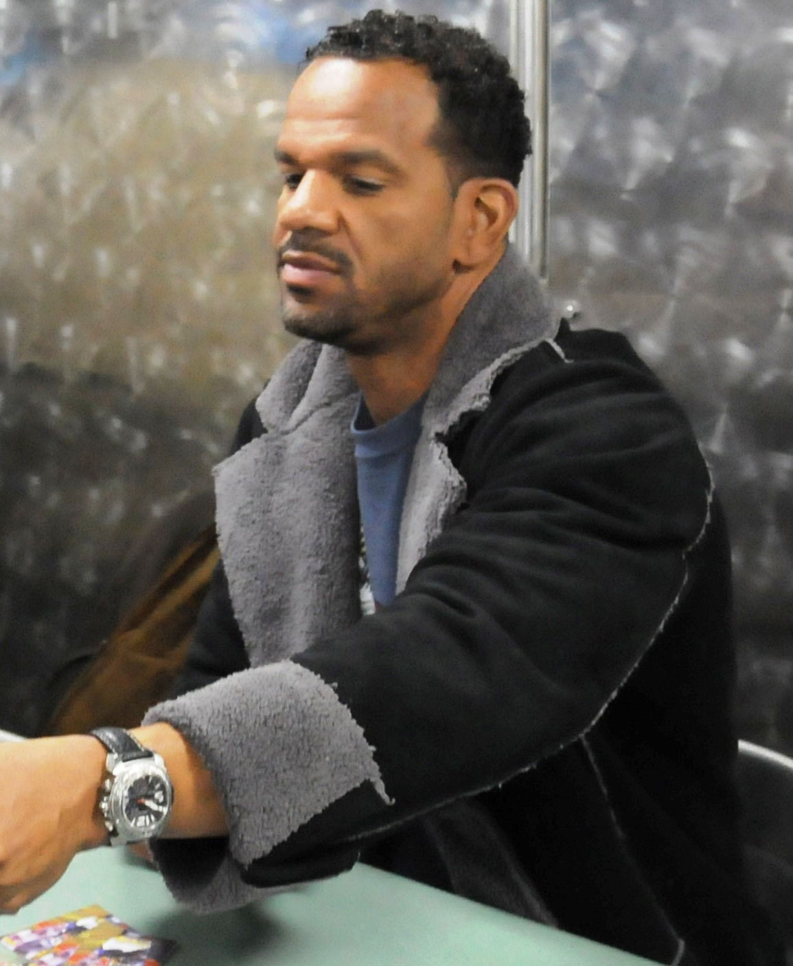 Retired Buffalo Bill Wide Reciever Andre Reed and other retired NFL players sign autographs for Sailors on the mess decks of the Nimitz-class aircraft carrier USS Ronald Reagan. The four retired NFL players enjoyed a two-day visit aboard the carrier, touring main spaces and interacting with the Sailors. Ronald Reagan and Carrier Air Wing 14 are under underway performing a sustainment exercise in the Pacific Ocean.